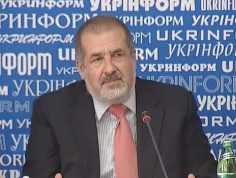 Refat Abdurakhmanovich Chubarov speaking at press-conference, August 8, 2014.